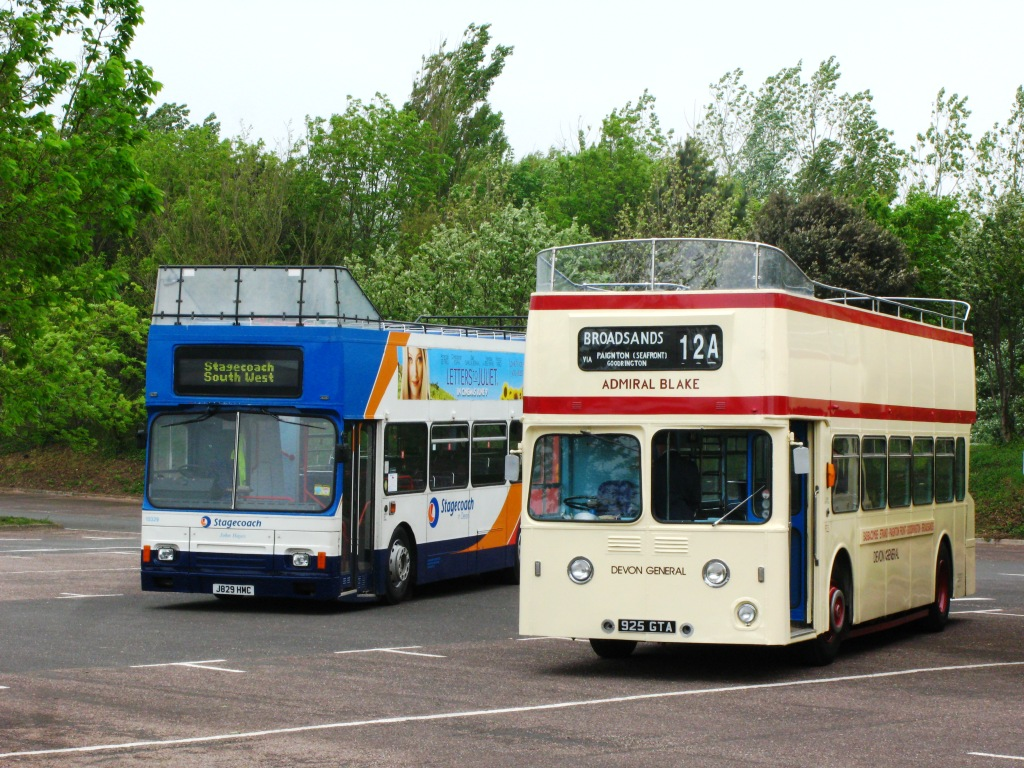 Two examples of open top buses operating in Torbay from different eras, pictured in Goodrington. Both buses are named after British sailors, which is a long standing practice for such services. On the left is Stagecoach in Devon bus 15329 John Hayes (reg. J829 HMC), still in service. It's a 1991 Scania N113DRB double-decker with Alexander RH bodywork. It was new to London Buses as their fleet no. S29. Inherited by Stagecoach London, it was one of the batch of 8 such vehicles that were subsequently transferred to Devon for conversion for use as open top buses. On the right is 925 Admiral Blake (reg. 925 GTA), a 1961 Leyland Atlantean PDR1 with Metro Cammell bodywork, new to Devon General as their 925, now operated as a heritage bus by Devonian Motor Services in Devon General livery. It was delivered new as a convertible open topper, and served with Devon General until 1977, when it was transferred to Penzance for operation with Western National (being renamed as Admiral Hardy). It has been with Paignton based D.M.S. since around April 2010, who aquired it from a private owner.